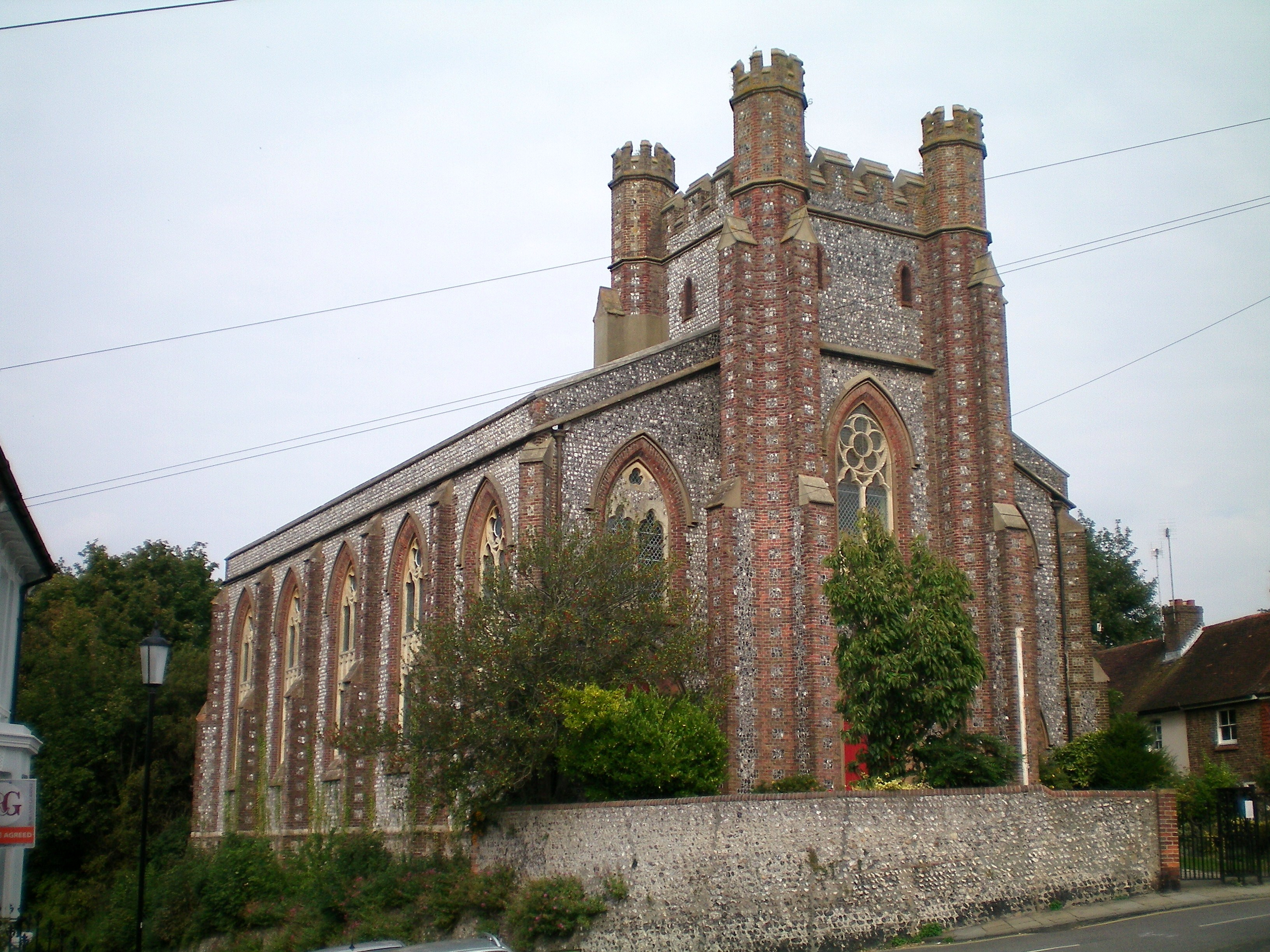 St John-sub-Castro Church, Abinger Place, Lewes, District of Lewes, East Sussex, England.